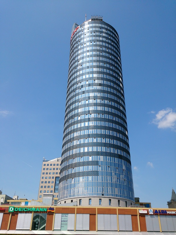 Das höchste Bürogebäude Ostdeutschlands - der fast 160m hohe Jentower